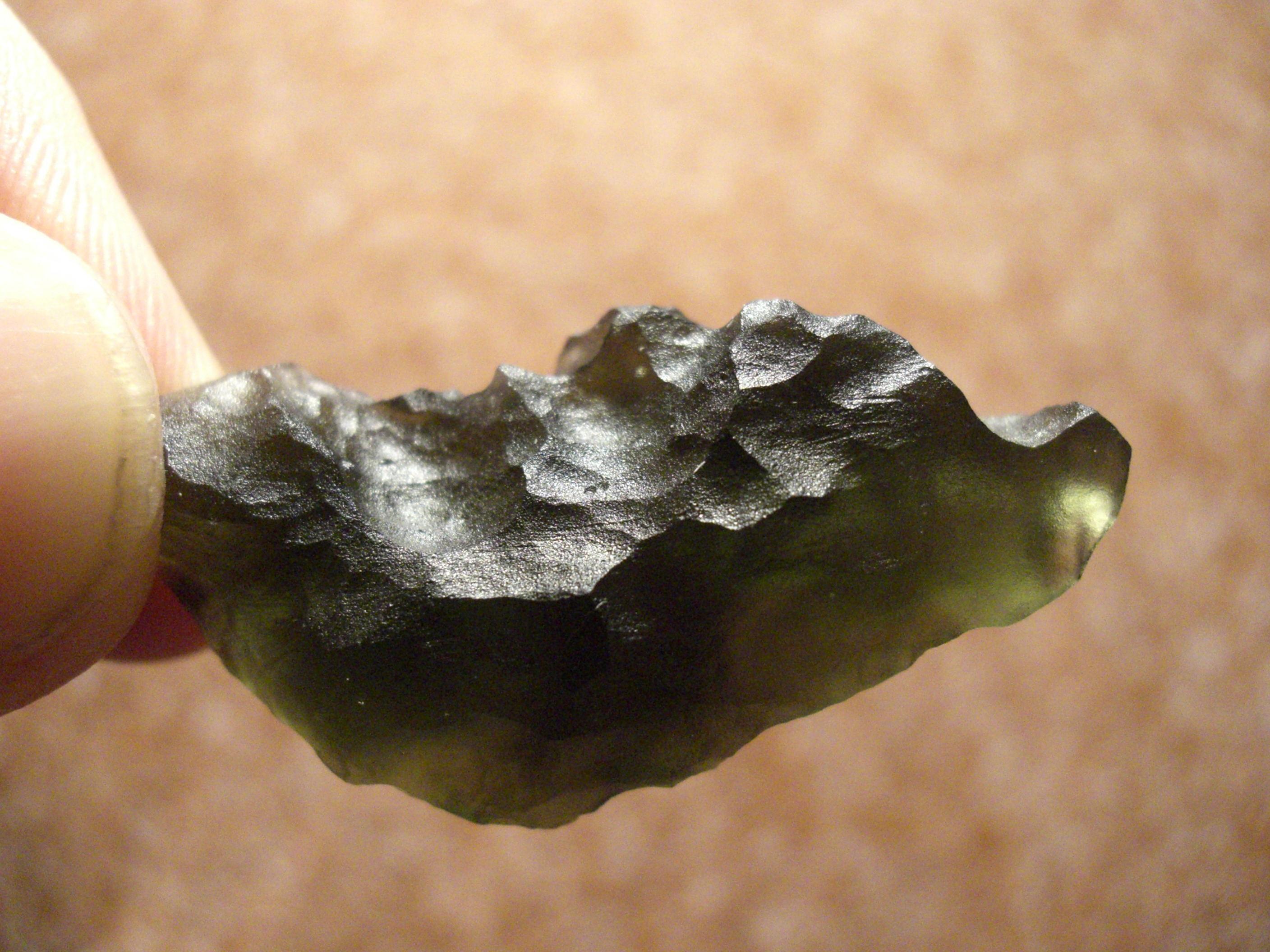 Moldavite from South Bohemia